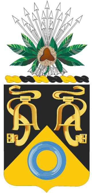 Coat of Arms of the 238th Cavalry Regiment